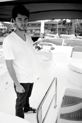 Max Albert in home town of San Diego, CA